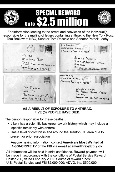 2001 anthrax reward poster